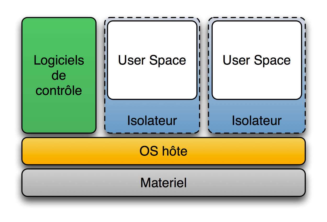 Virtualization, architecture of an isolator